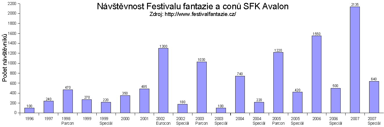 Graph of number of visitors of Festival fantazie and other SFK Avalon's conventions